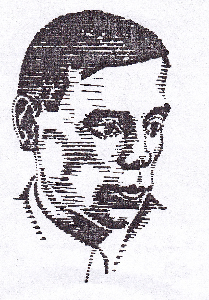 Portrait of Lithuanian poet Jonas Aistis (by Leonas Juozonis)